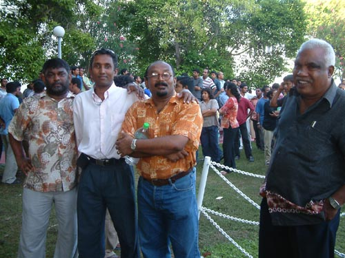 August 13, 2004, was the crackdown by the Maldivian National Security Service (NSS) — later Maldivian National Defence Force — on a peaceful protest in the capital city of Maldives, Malé. This unplanned and unorganized demonstration was the largest such protest in the country's history. Beginning on the evening of August 12, 2004, the demonstration grew and continued until it was forcefully ended on the afternoon of August 13, 2004. Protesters initially demanding the freeing of the pro-reformists arrested on the afternoon of August 12, 2004. As the protest continued to grow, people demanded the resignation of president Maumoon Abdul Gayoom, who had been in power since 1978. What started as a peaceful demonstration ended after 22 hours, as the country's darkest day in recent history. Several people were severely injured as NSS personnel used riot batons and teargas on unarmed civilians.